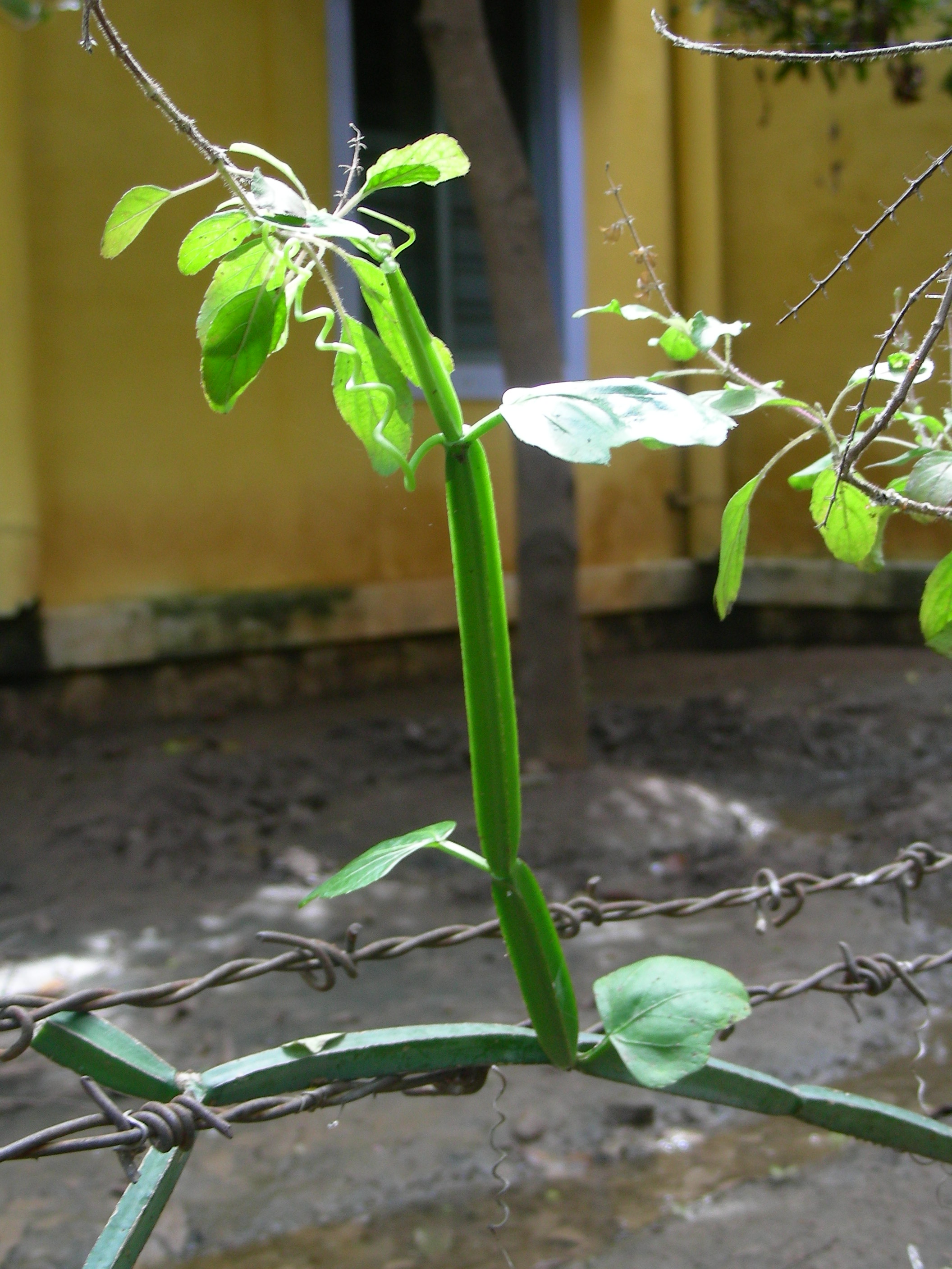 Cissus quadrangularis in Sholavandan near Madurai